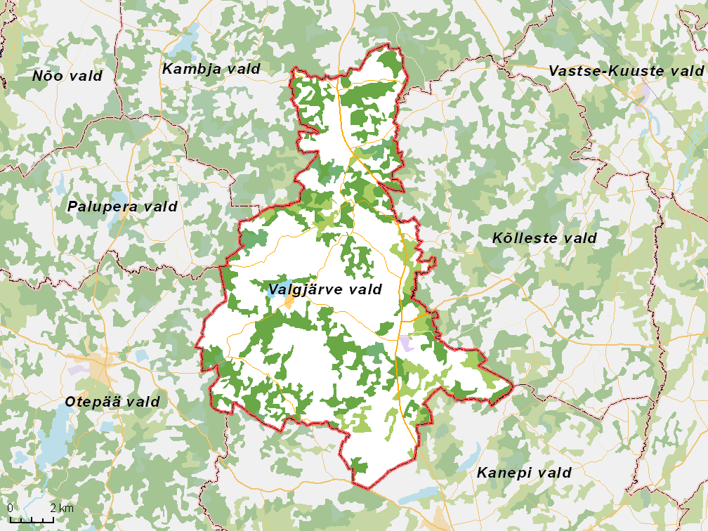 Map of municipality in Estonia